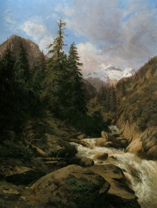 Mikhail Spiridonovich Erassi